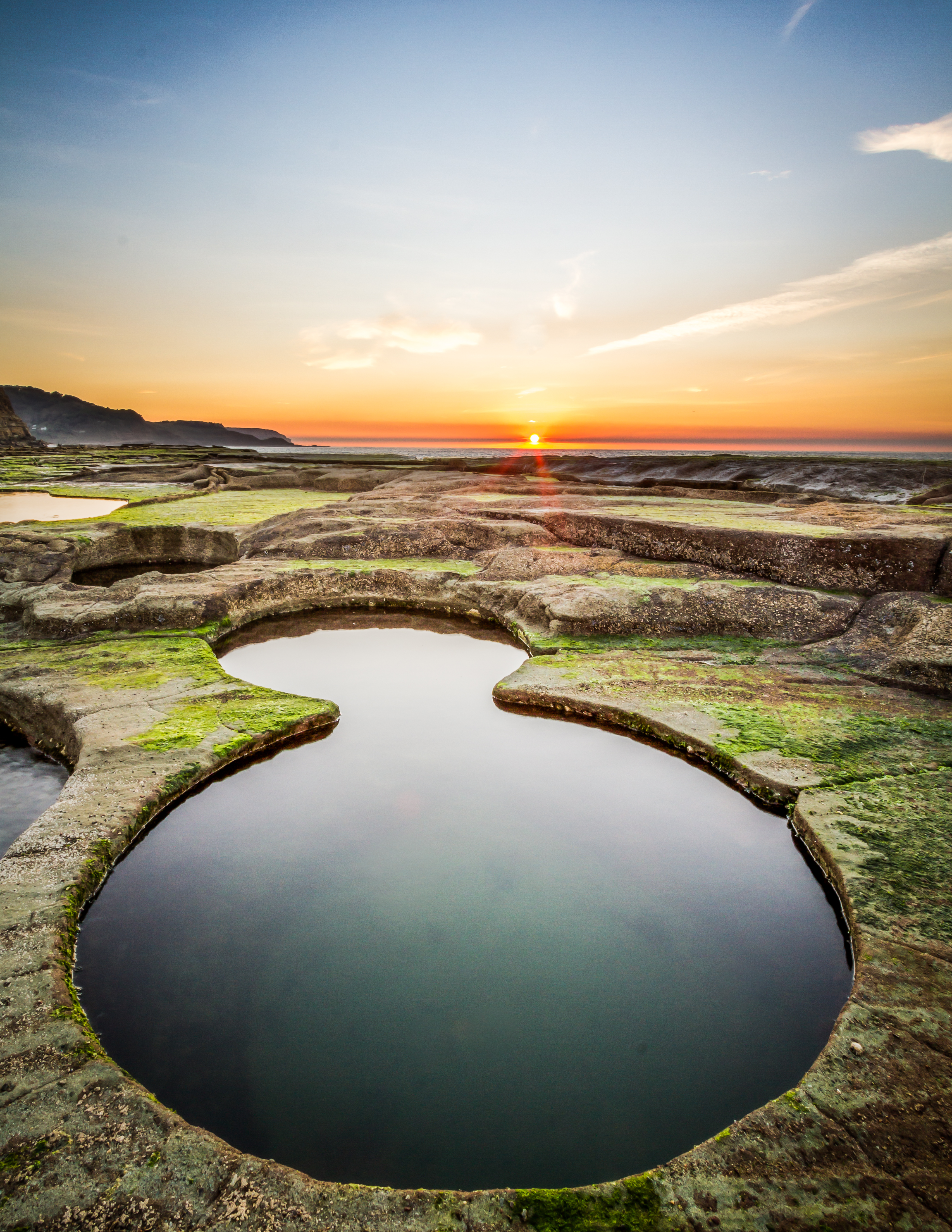 Sunrise at Royal National Parks figure 8 Pools during low tide. 34°11'40.44”S 151° 2'18.82”E